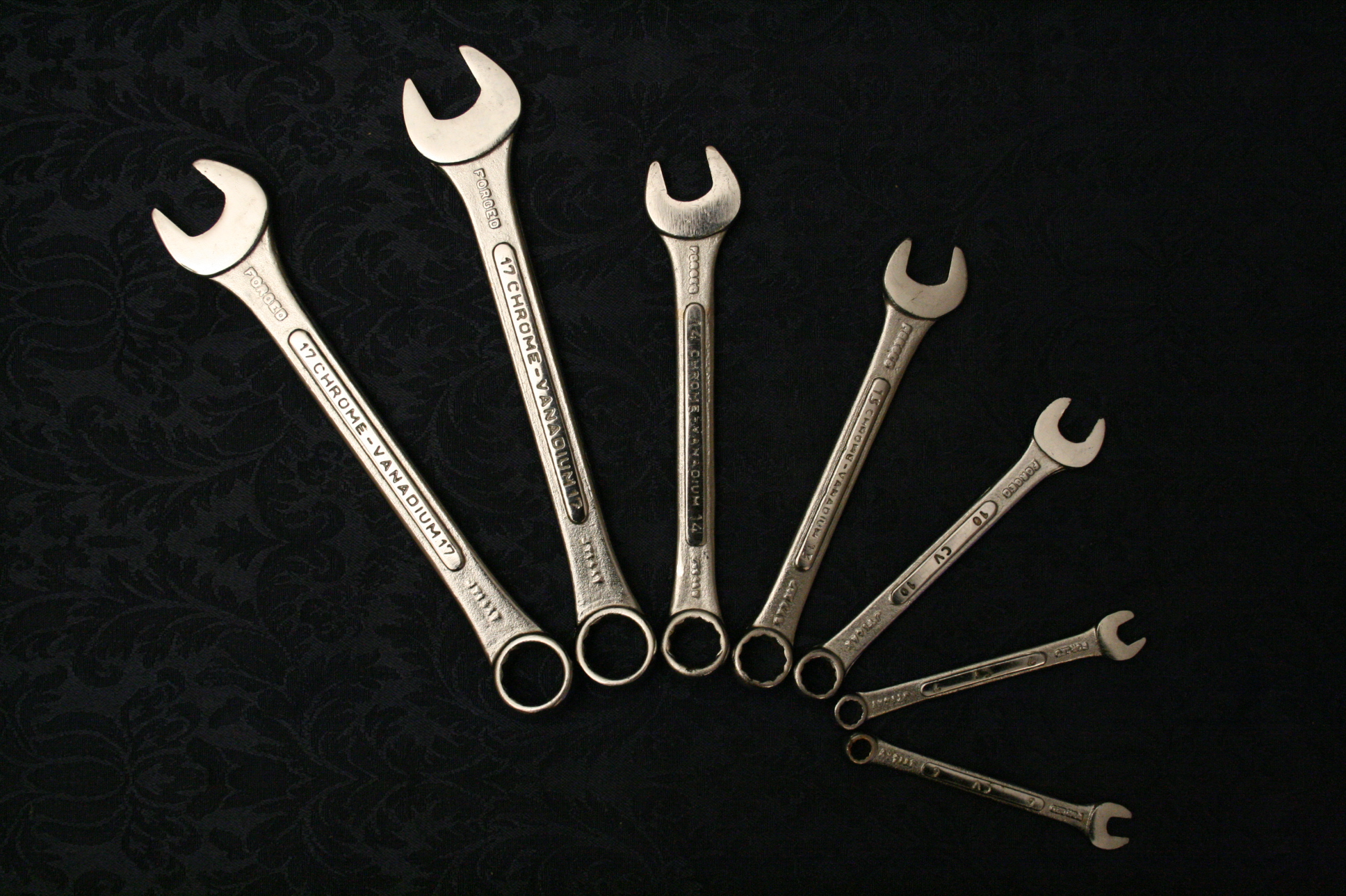 A set of raised panel, satin finish, metric chrome-vanadium wrenches. The smallest is 6 mm, the largest is 17 mm.